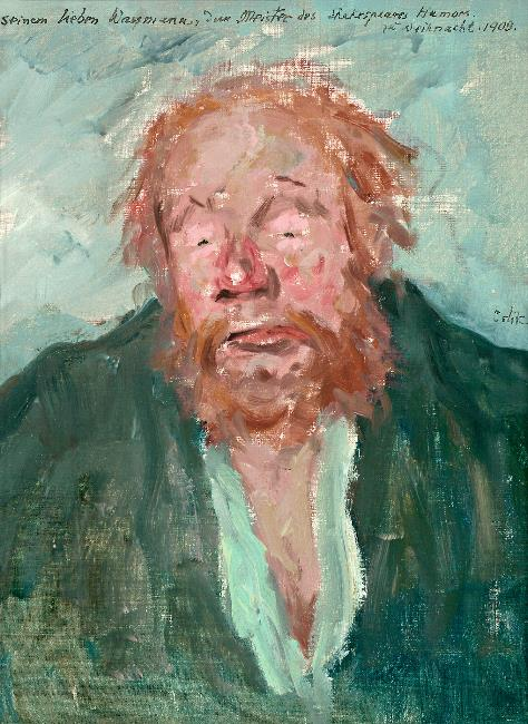 Actor Hans Wassmann as Nick Bottom in Shakespeare's A Midsummernight's Dream